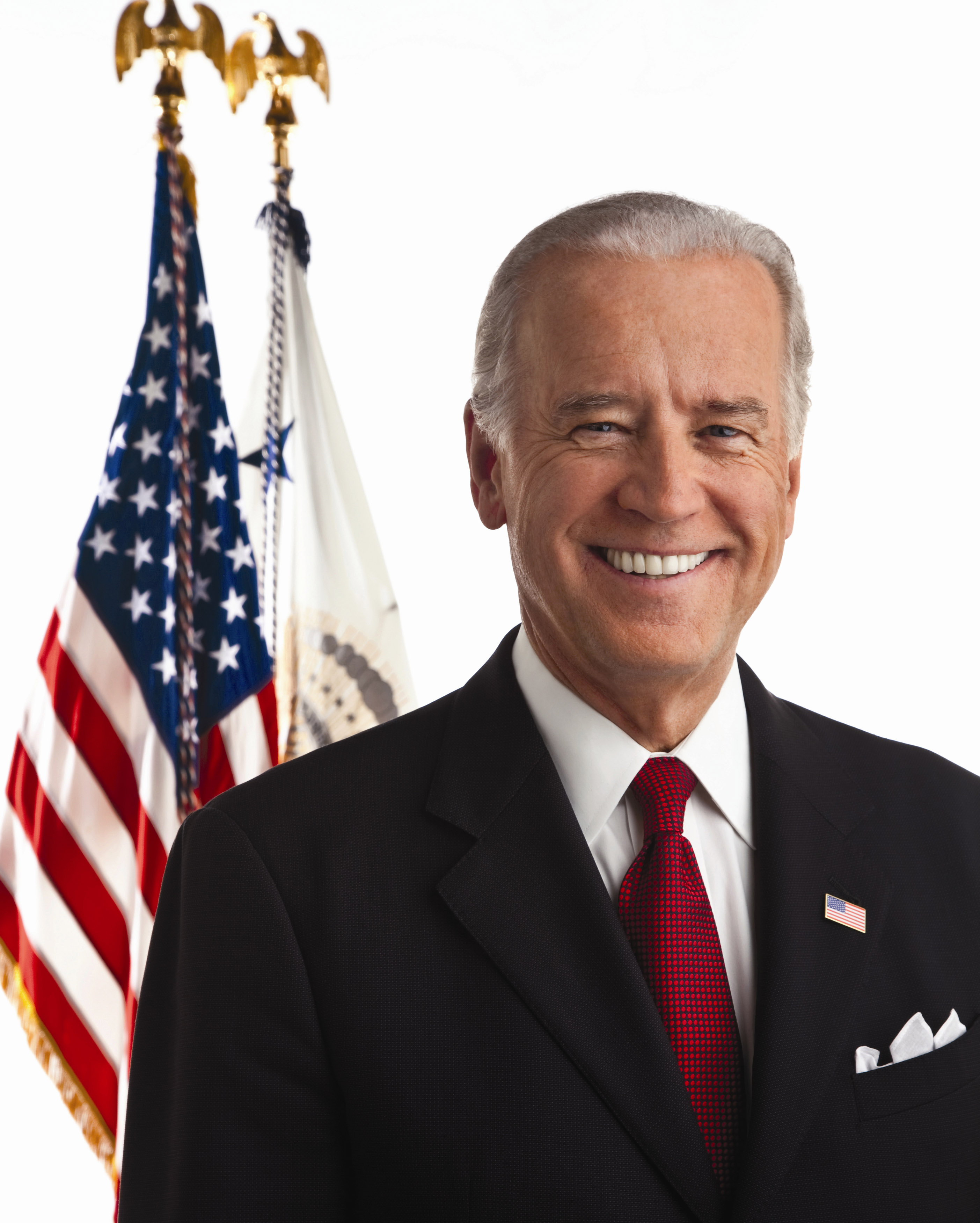 Official portrait of Vice President of the United States Joe Biden.